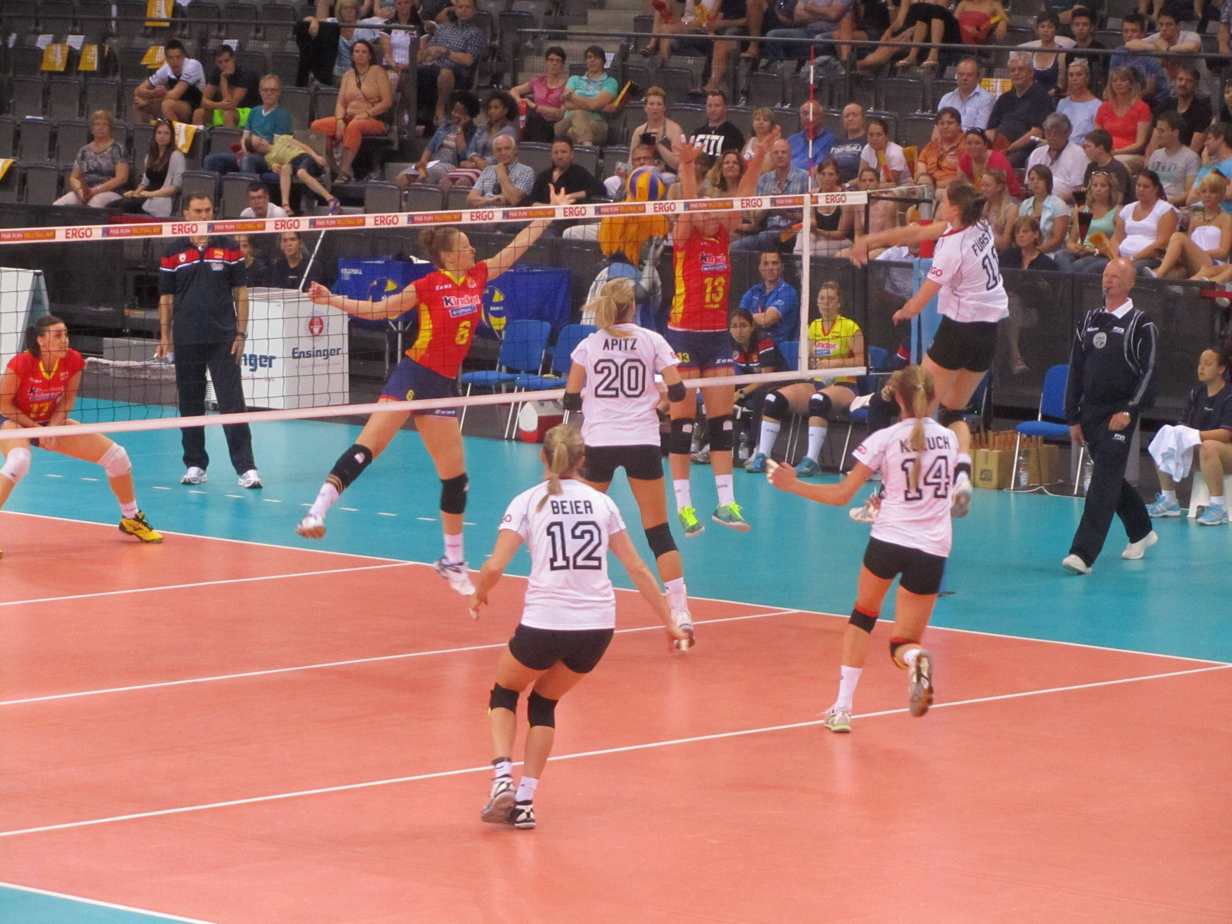 scene from the European League Germany vs. Spain 2014 in Stuttgart with Christiane Fürst attacking at the net